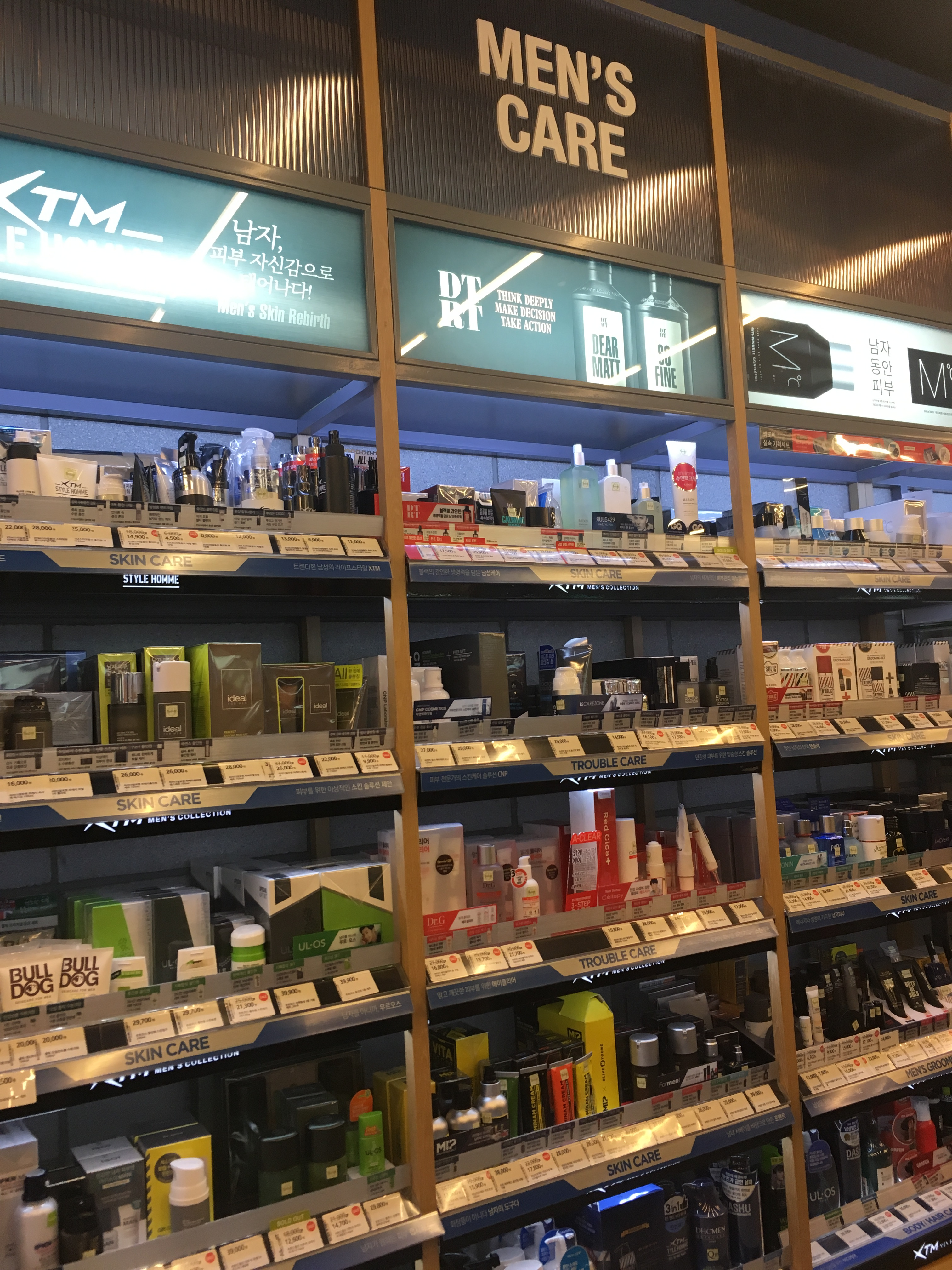 Men's cosmetics in drug store of South Korea